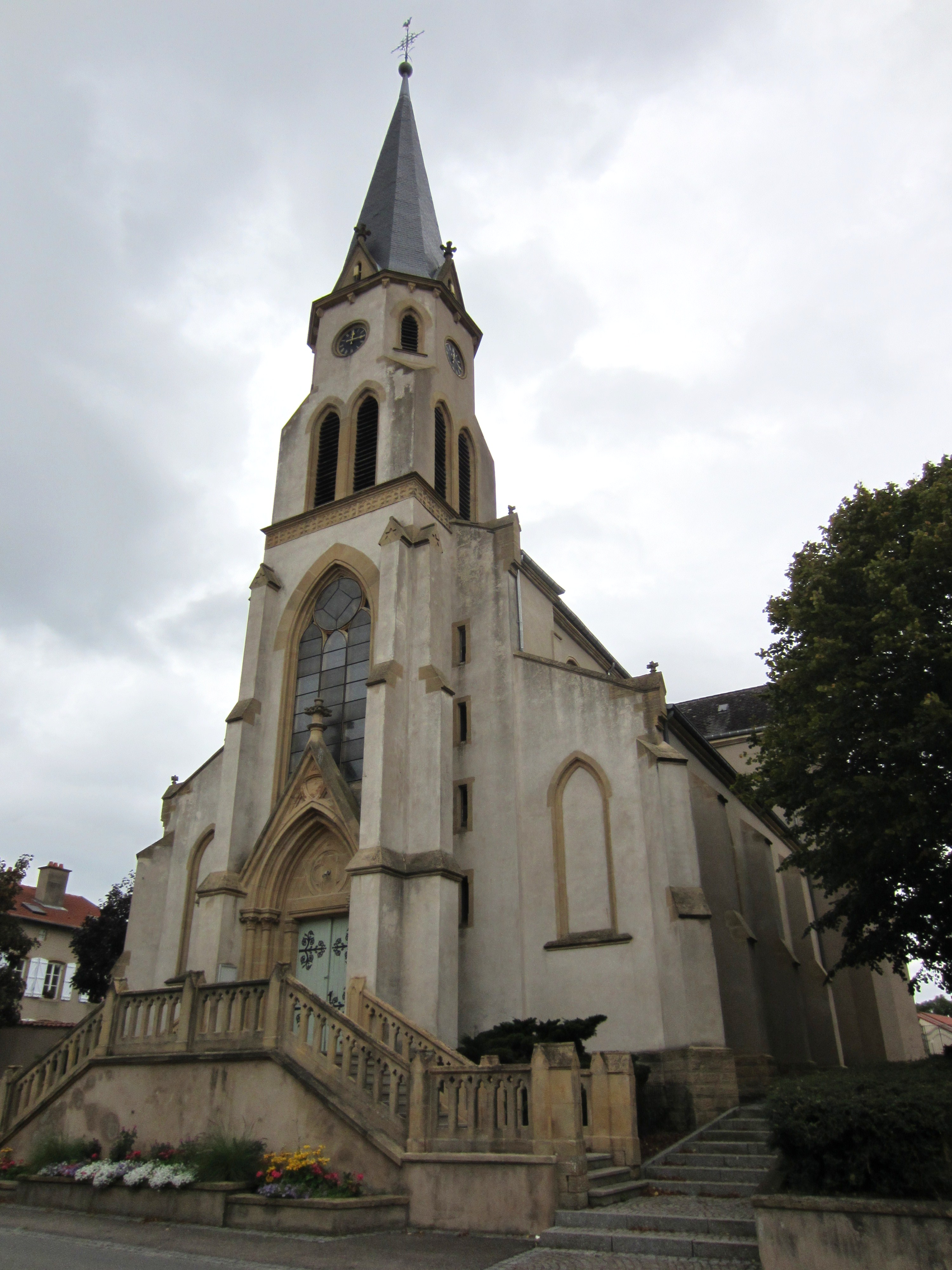 Description eglise Luttange Date8 September 2011Sourcemon appareil photoAuthorAimelaimePermission (Reusing this file) eglise Luttange